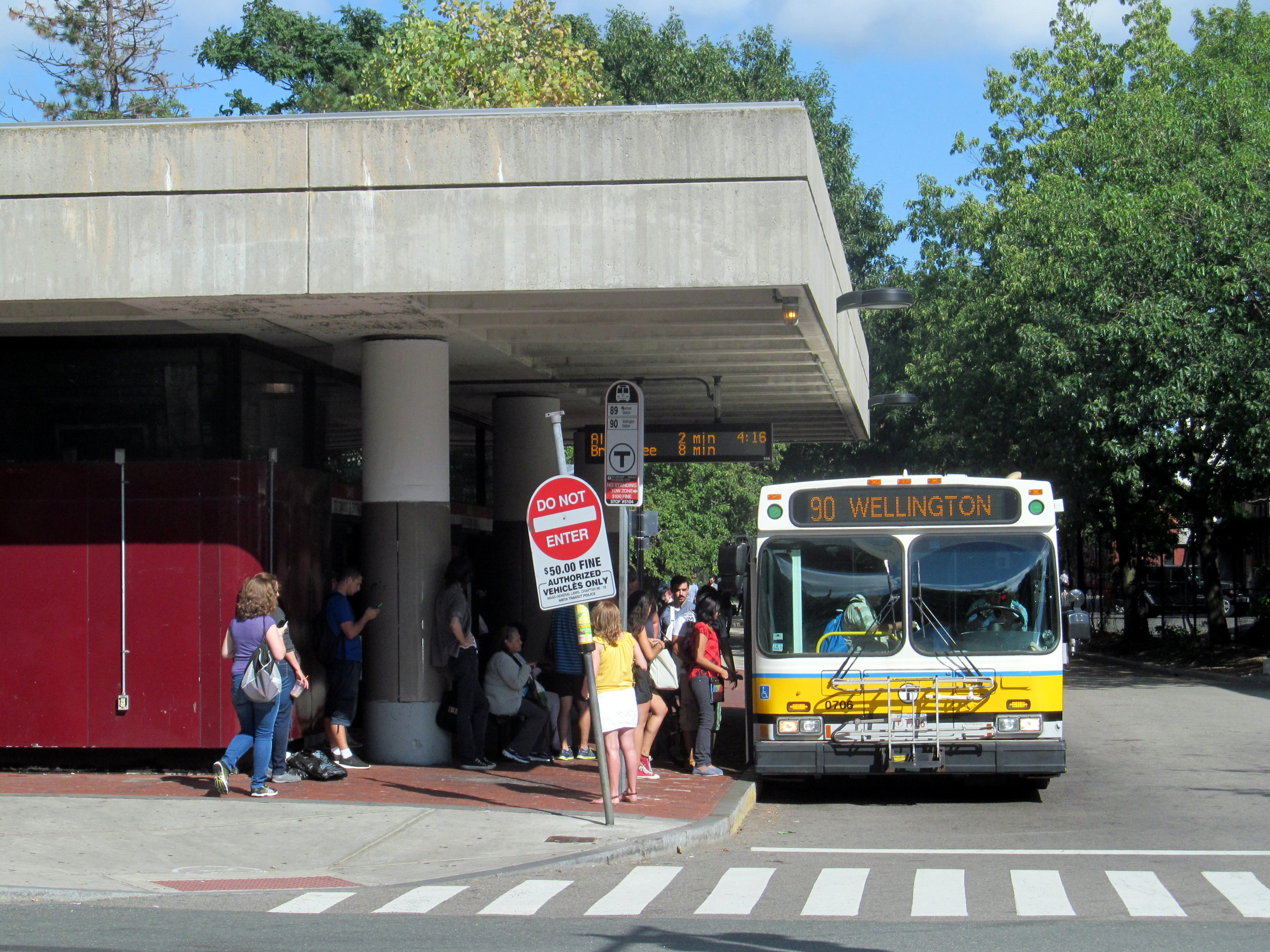 A #90 bus picks up passengers at Davis station in August 2015